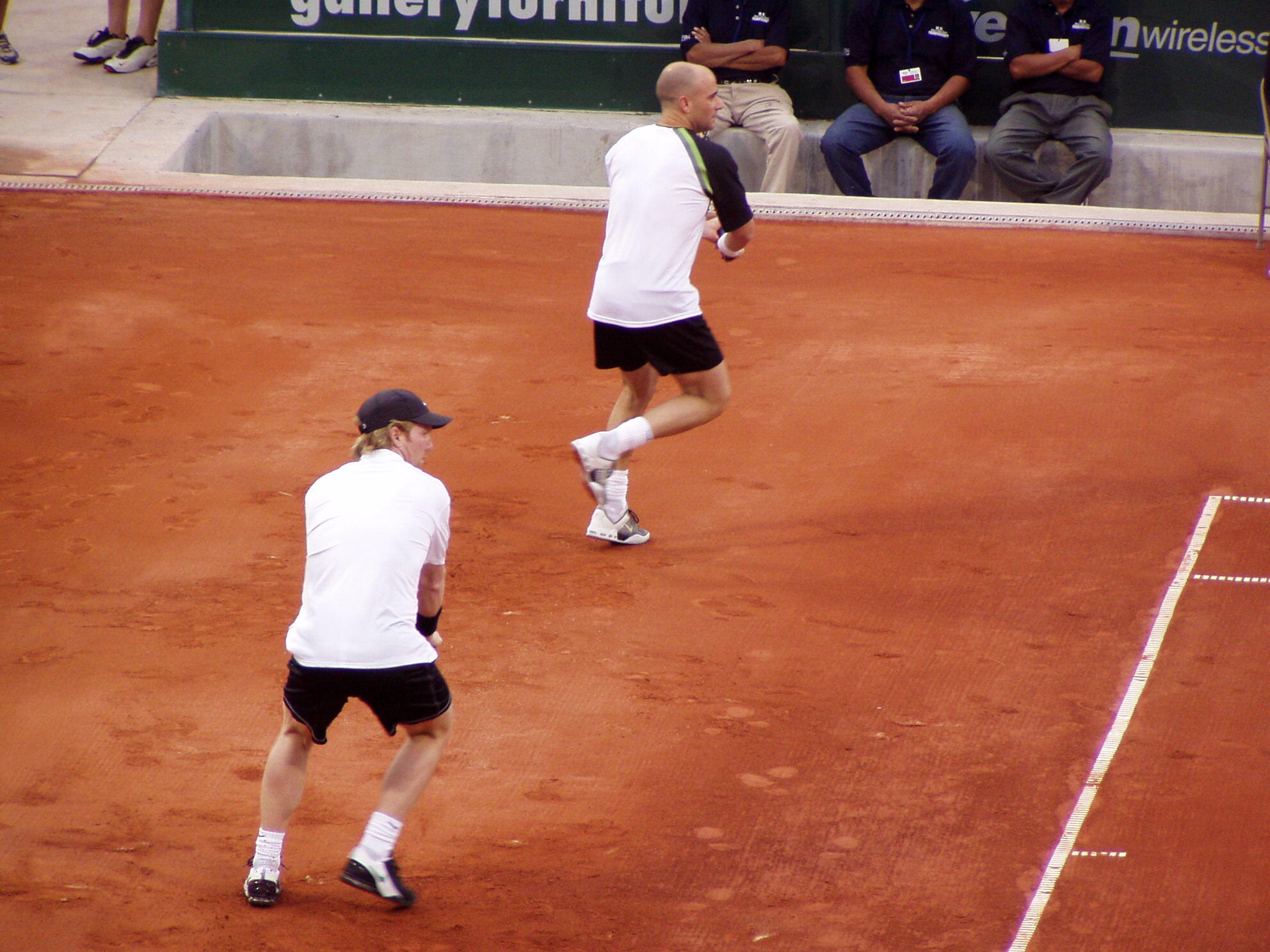 Andre Agassi and Jim Courier. Houston, Tx.